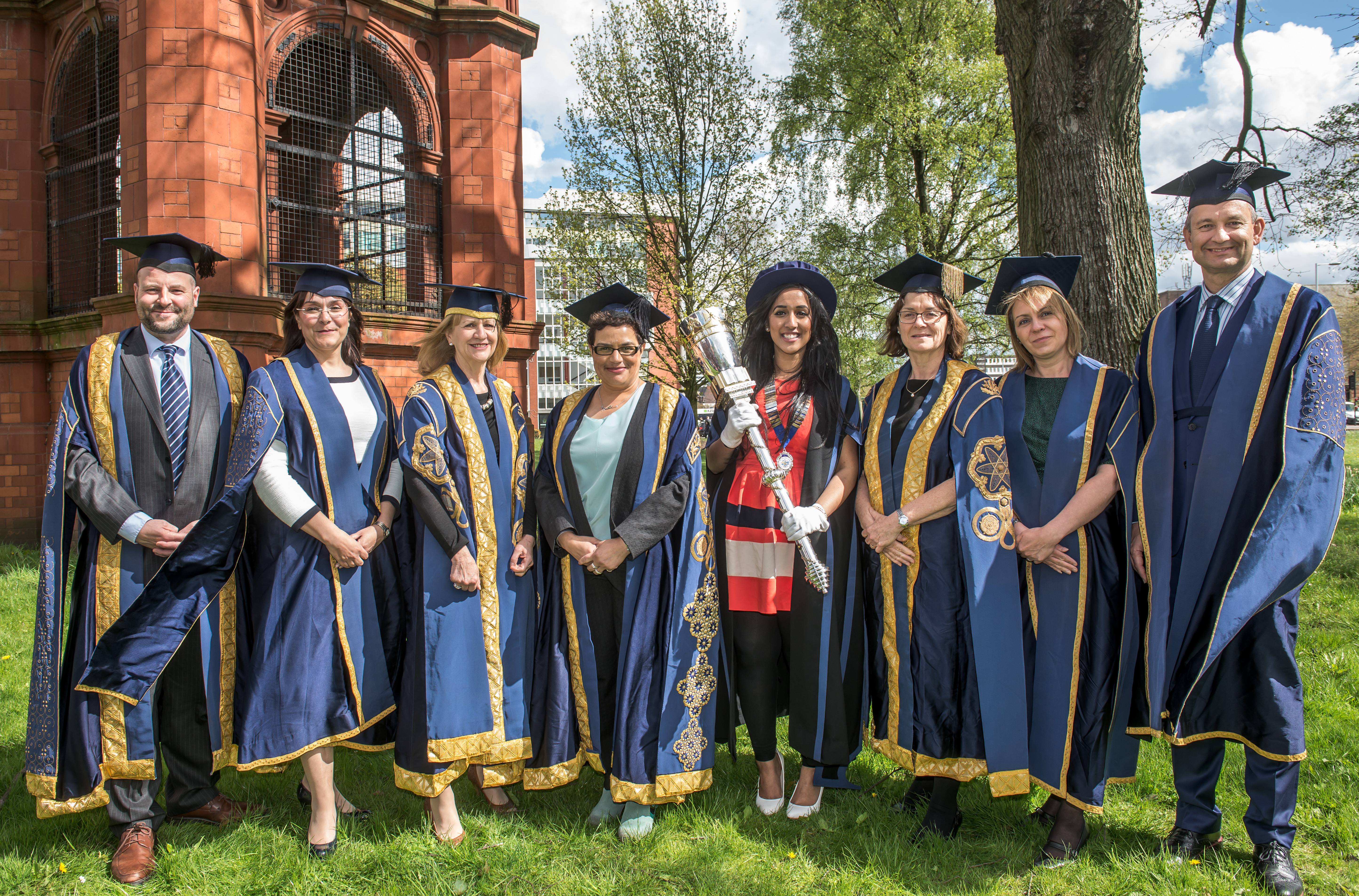 Sixth Chancellor of the University of Salford Installation of Chancellor Professor Jackie Kay MBE - University of Salford, Peel Hall Sixth Chancellor of the University of Salford, April 29, 2015